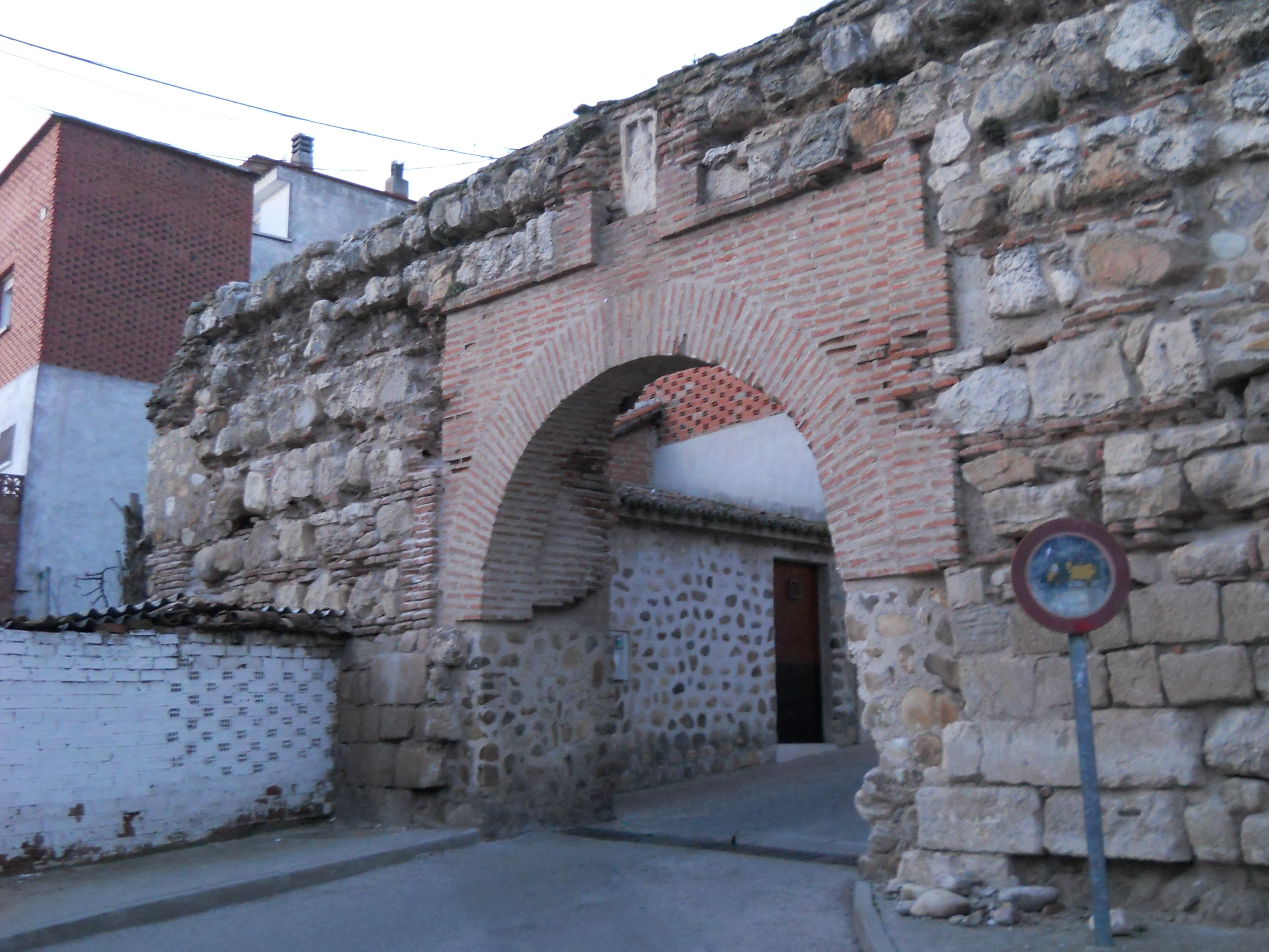 South Gate, also called "La Tostonera", Talamanca de Jarama, Madrid, Spain